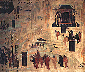 8th century painting from Mogao caves, Dunhuang.Look also Image:HanWudiBuddhas.jpg and Image:ZhangQianTravels.jpg